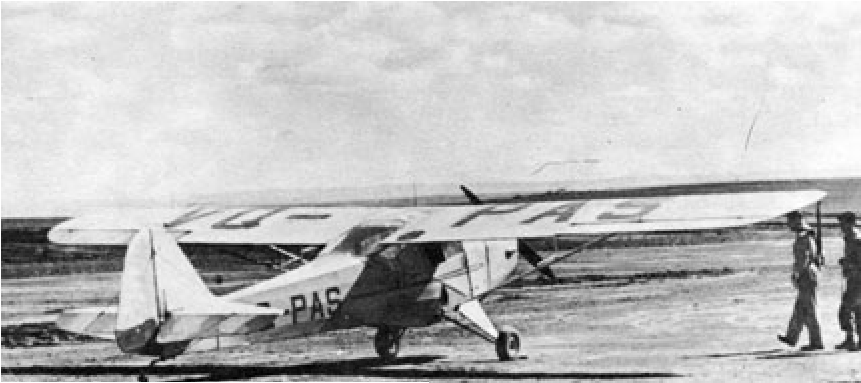 Auster Autocrat used by early IAF